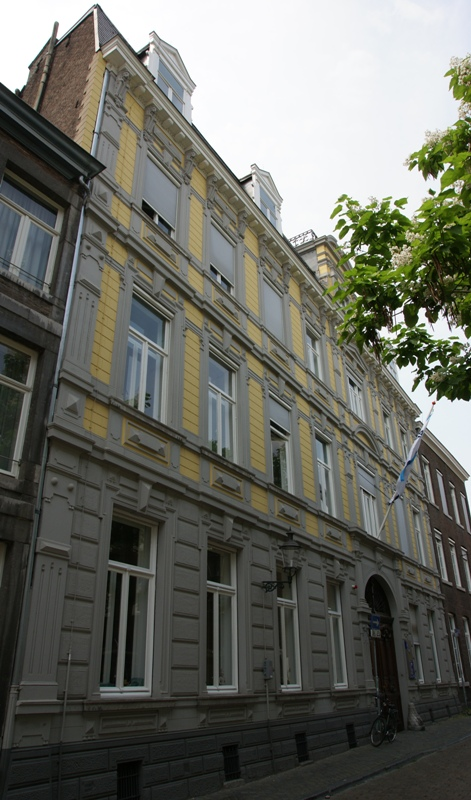 National monument no. 506711 - Kapoenstraat 2, Maastricht, The Netherlands